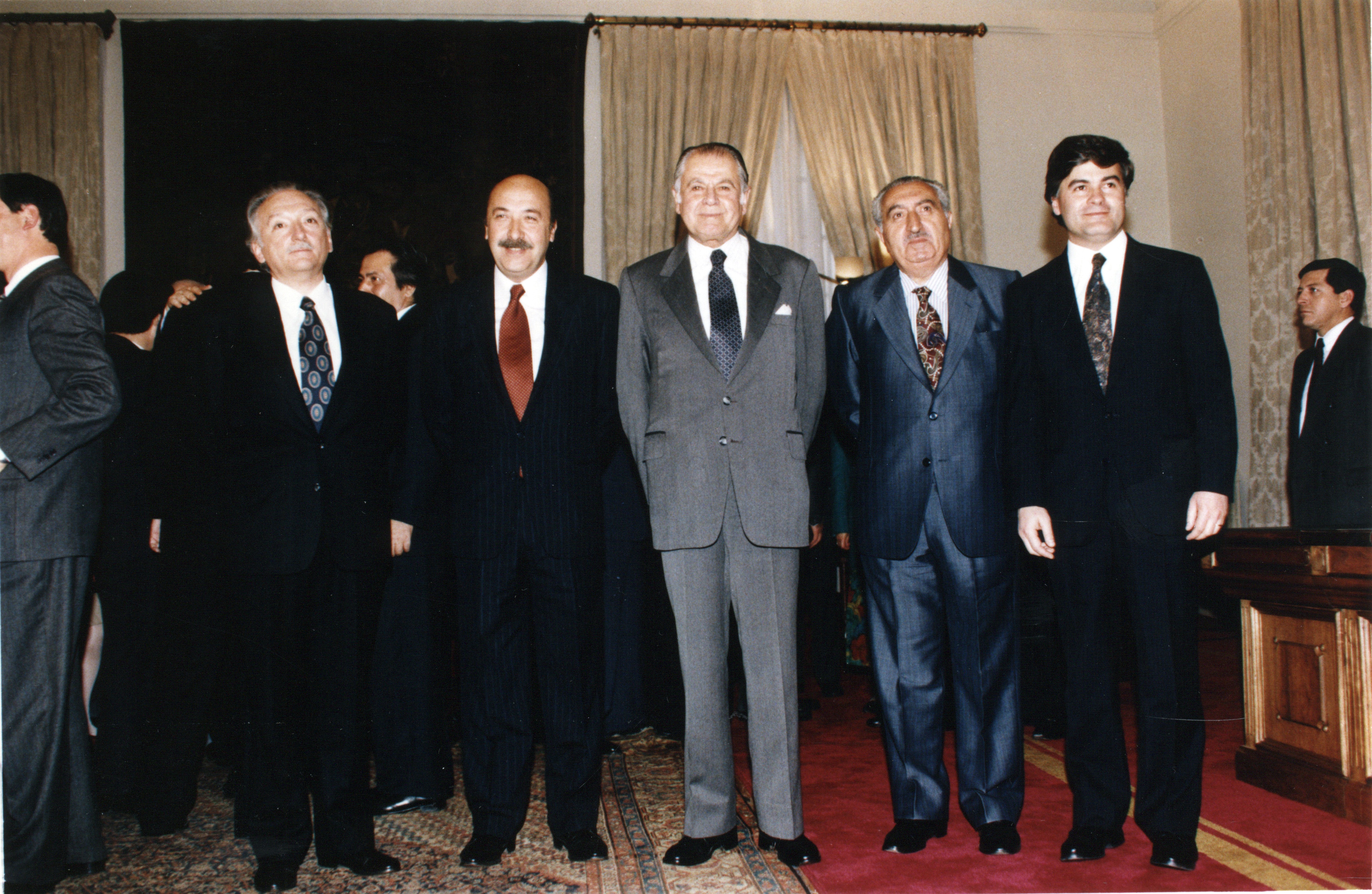 Los recién jurados ministros del gobierno del presidente Patricio Aylwin Azócar. De izquierda a derecha: Jorge Arrate Mac Niven, ministro de Educación; Germán Molina Valdivieso, ministro de Transportes y Telecomunicaciones; Alejandro Hales Jamarne, ministro de Minería; y Jorge Marshall Rivera, ministro de Economía. 28 Septiembre 1992